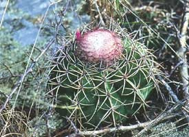 Type locality, Pernambuco, Brasil